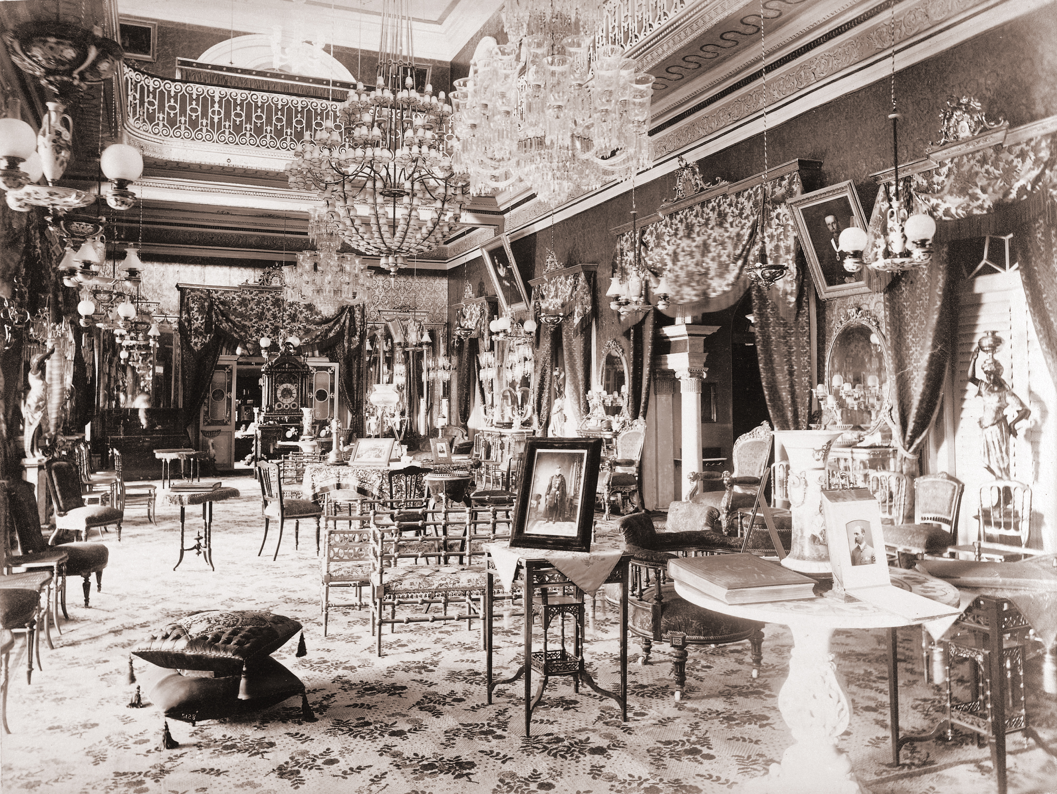 Photograph of a drawing room in the Bashir Bagh Palace in Hyderabad, taken by Deen Dayal in the 1880s, from the Curzon Collection: 'Views of HH the Nizam's Dominions, Hyderabad, Deccan, 1892'. This is a view of a richly furnished drawing room in the Bashir Bagh Palace. The Palace was constructed by Asman Jah who was Prime Minister of Hyderabad from 1887 to 1894. The palace has since been dismantled, however the area is still known as Basheerbagh.